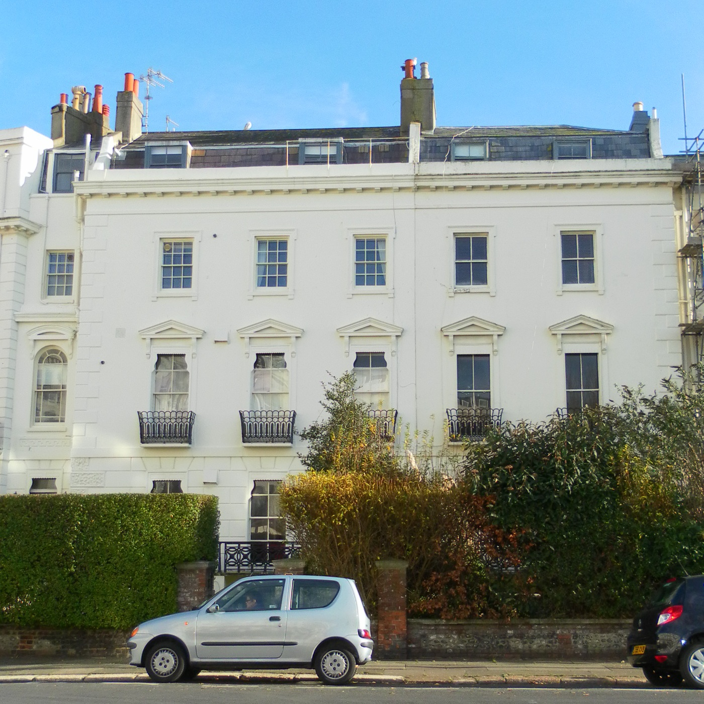 32–33 Montpelier Crescent, Brighton, City of Brighton and Hove, England. Listed at Grade II by English Heritage (NHLE Code 1380363)